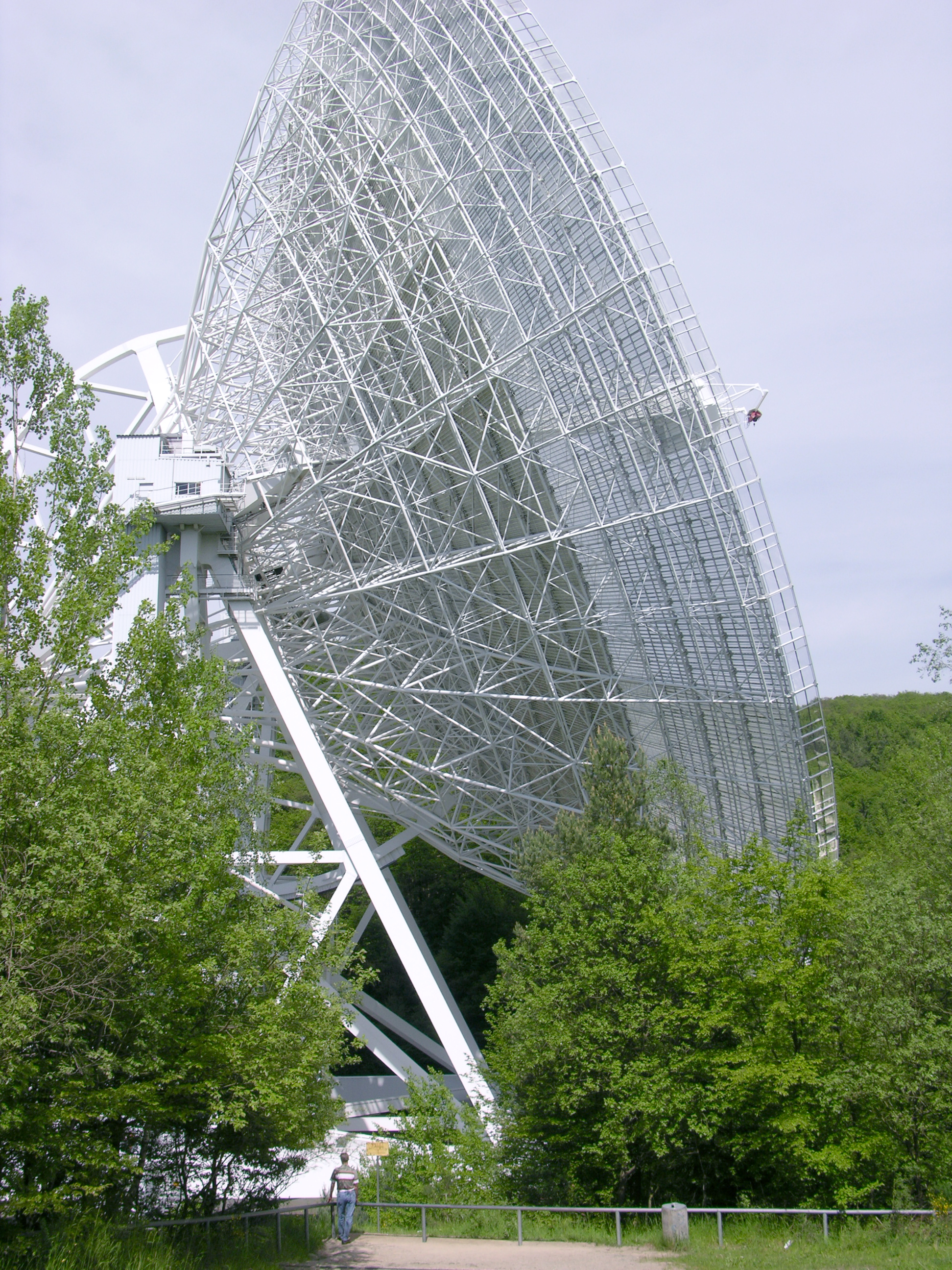 Rear side of the 100m radio-telescope in Effelsberg, Germany